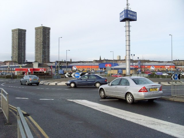 Roundabout at Forge Retail Park On the Gallowgate, at Biggar Street.